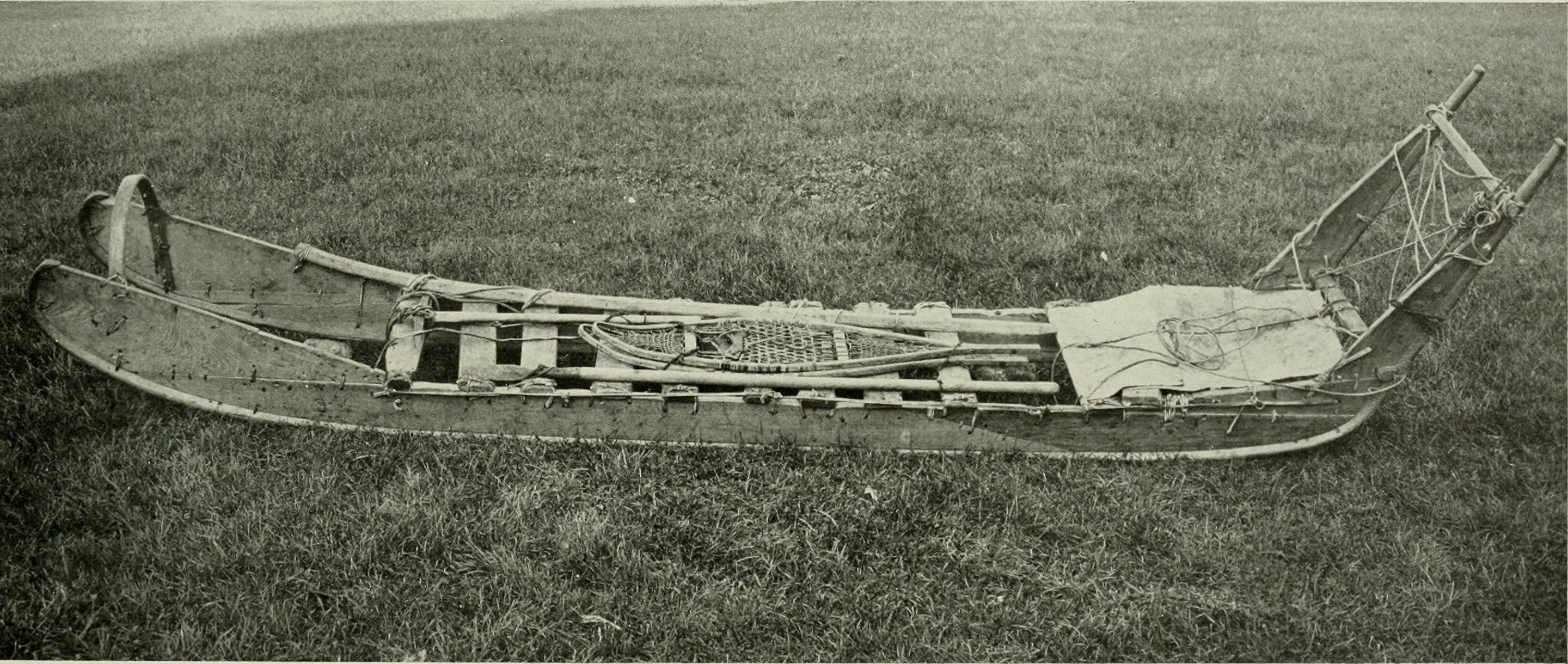 Sledge used in the Peary Arctic expedition Title: The American Museum journal Year: c1900-(1918) (c190s) Authors: American Museum of Natural History Subjects: Natural history Publisher: New York : American Museum of Natural History Text Appearing Before Image: ' Text Appearing After Image: O a; o 5